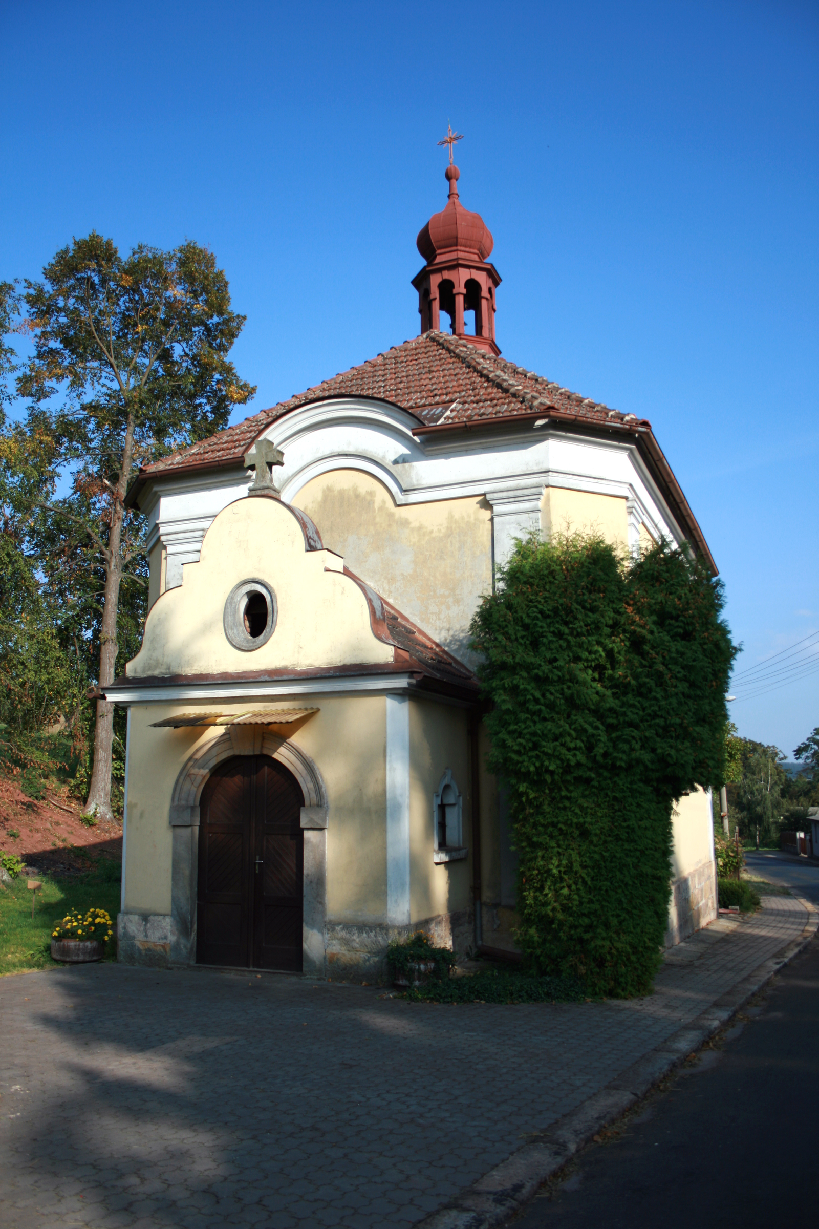 Church in village Třebihošť, East Bohemia, Czech Republic